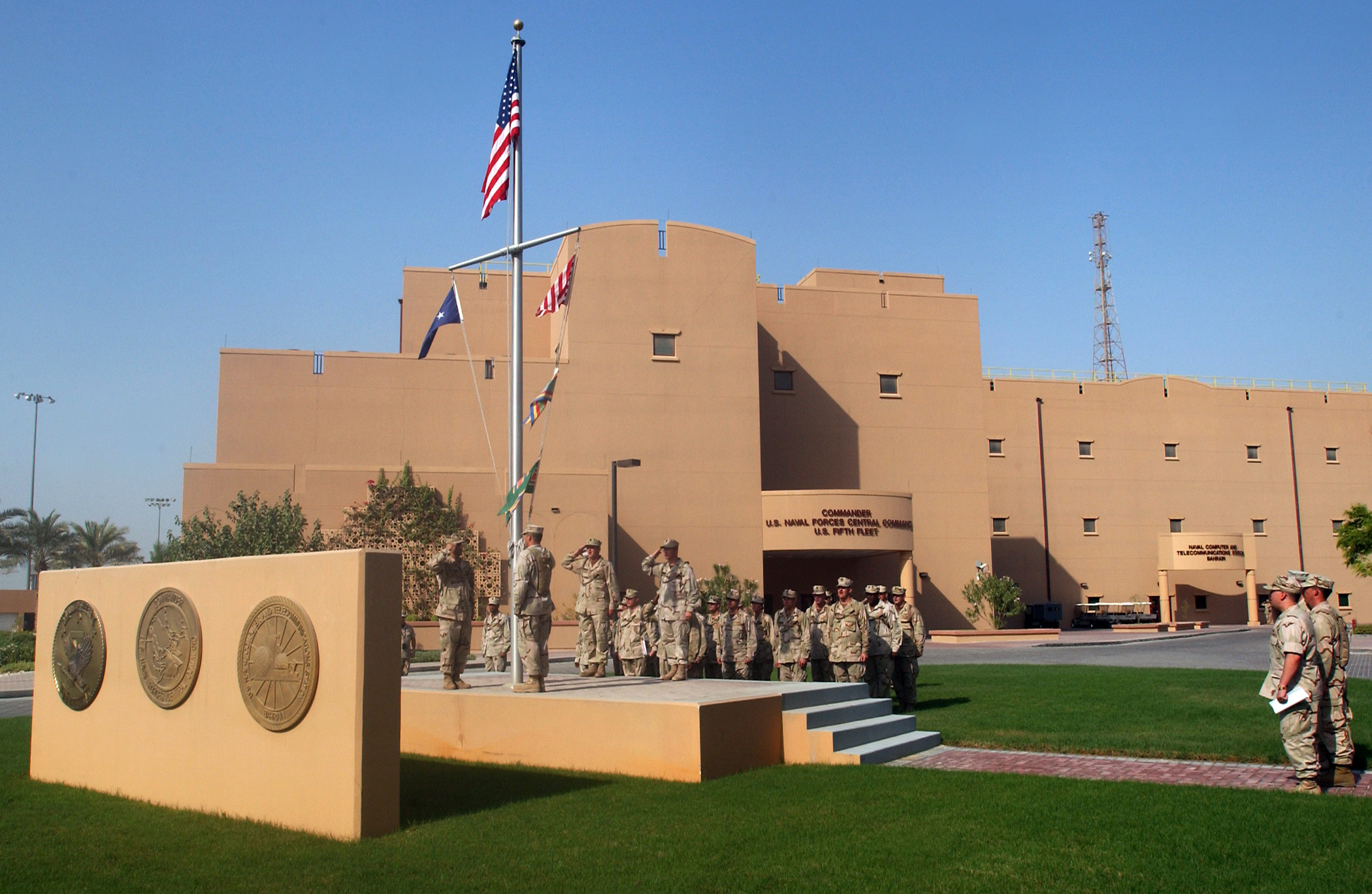 Manama, Bahrain (Aug. 16, 2005) - New chief petty officer (CPO) selectees perform morning colors on board Naval Support Activity (NSA) Bahrain. Forty-eight 1st class petty officers stationed at NSA Bahrain and tenant commands were selected for advancement to CPO. U.S. Navy photo by Photographer’s Mate Phillip A. Nickerson, Jr. (RELEASED)